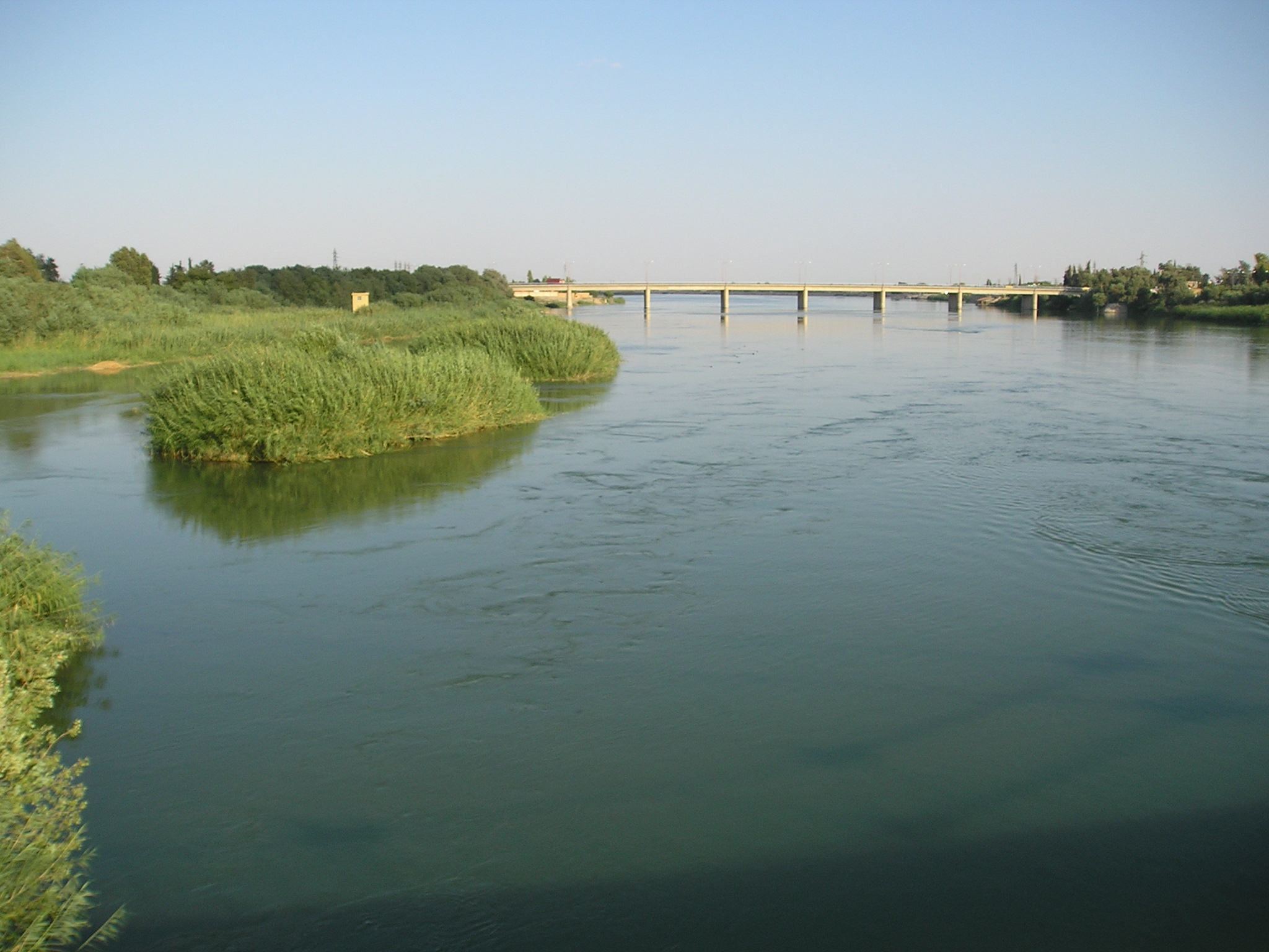 The Euphrates in Deir ez-Zor, Syria